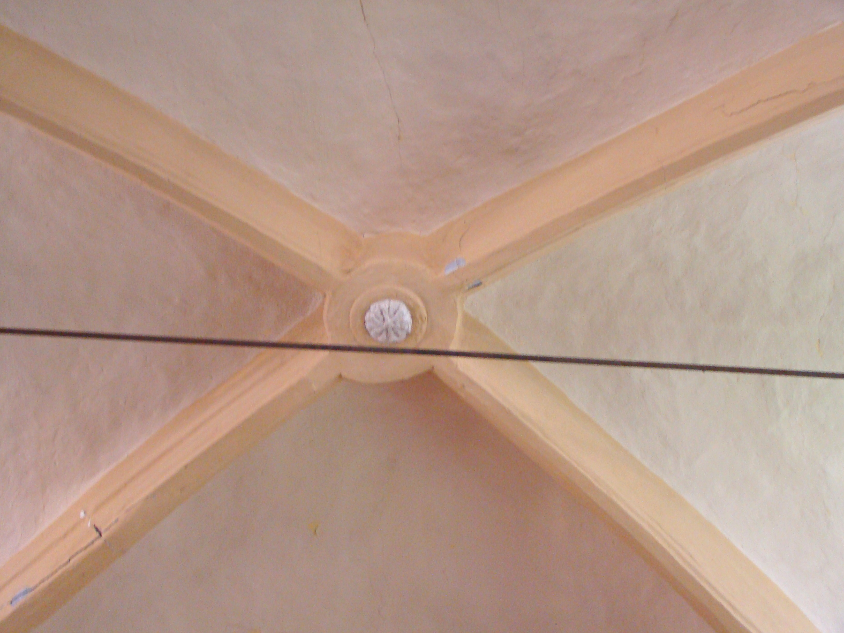 Fortified church in Cața, Braşov County, Romania